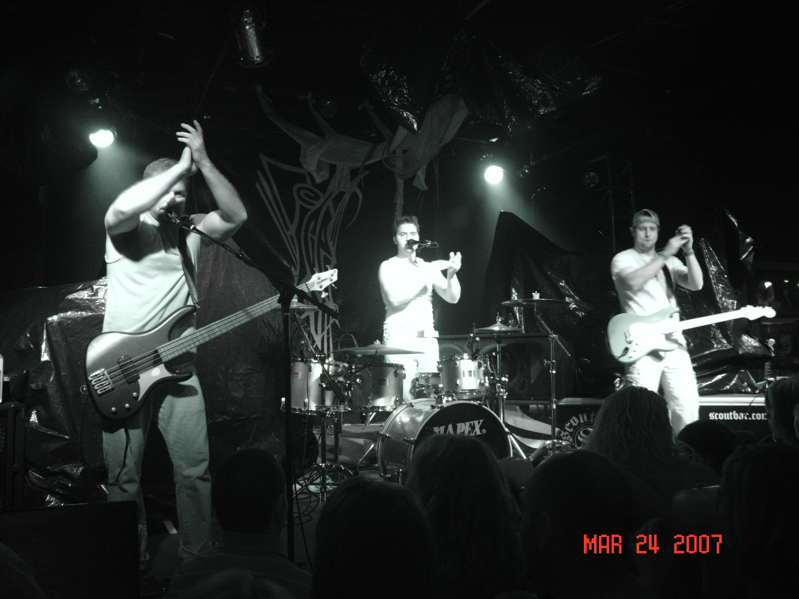 Jumping Monks